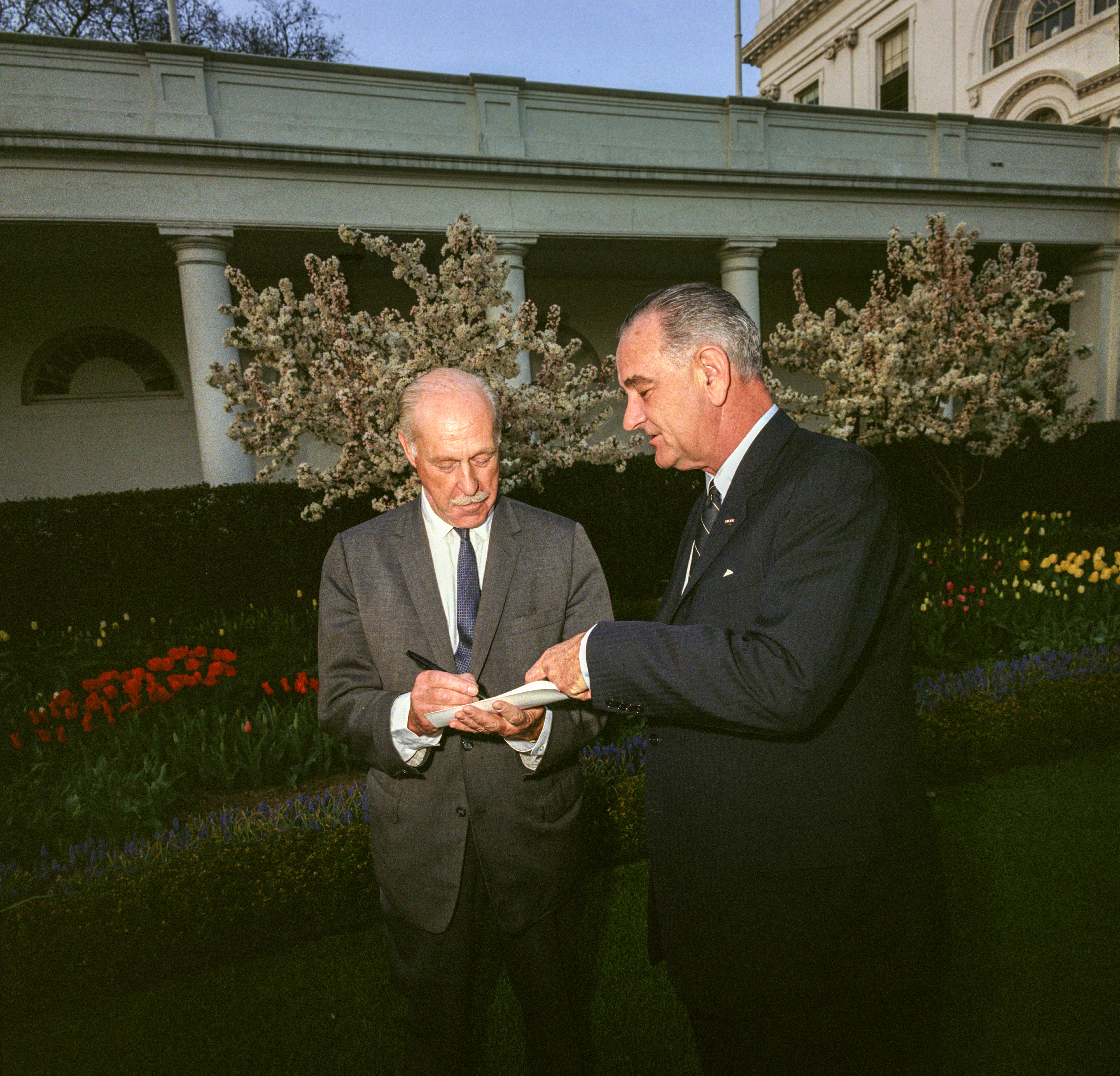 Journalist Drew Pearson in the White House Garden with President Lyndon Johnson, April 1964.